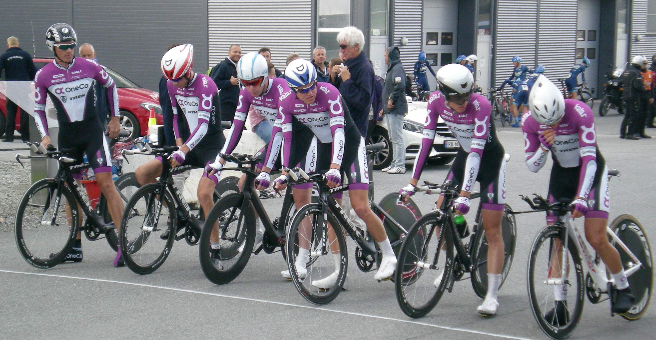 OneCo Cycling Team at the start of stage 3 in Tour des Fjords 2013